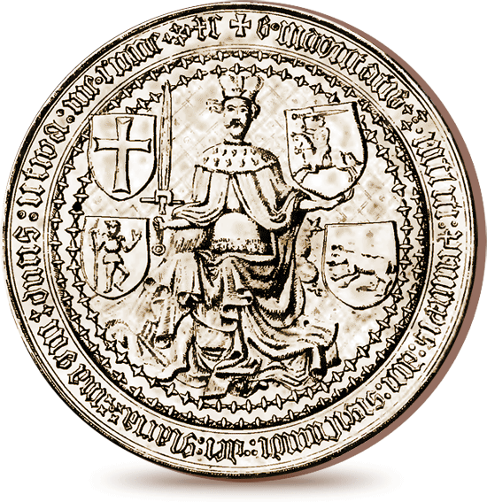 Seal of Sigismund Great Duke of Lithuania Беларуская (тарашкевіца): Пячатка Жыгімонта Кейстутавіча